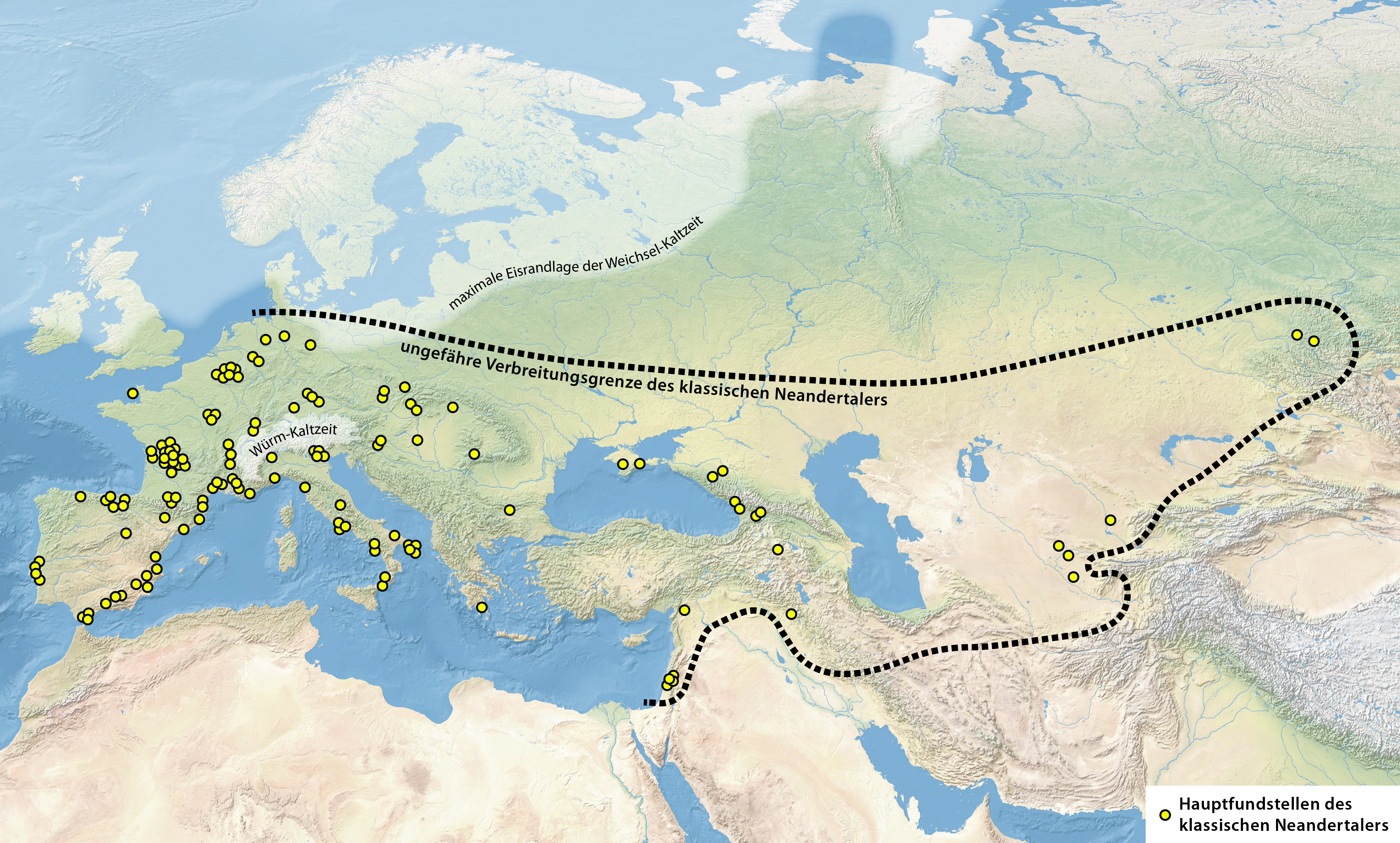 Map of sites where classical Neandertal fossils were found